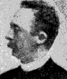 Erik Åkerberg (1860-1938), Swedish composer